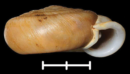 Photo of an apertural view of a shell of Halongella schlumbergeri (Morlet, 1886), MNHN 24582 (syntype of Helix (Plectopylis) schlumbergeri). Scale bar is 10 mm.